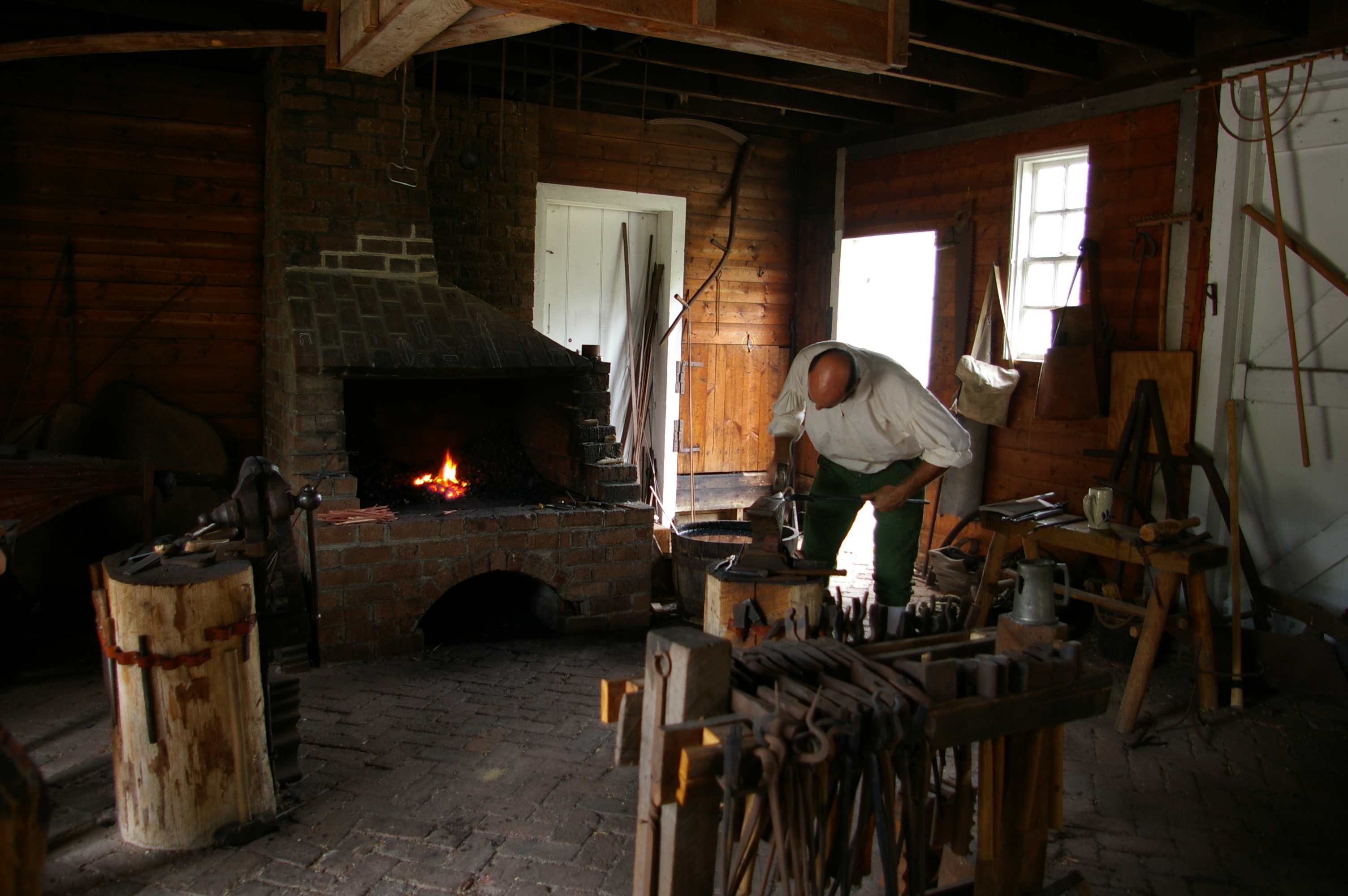 Blacksmith Shop at the George Washington Birthplace National Monument, 2007. Photograph taken by Joy Schoenberger